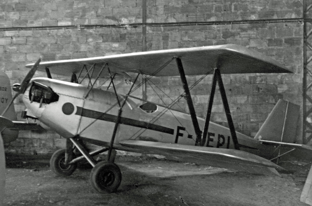 The sole SCAL FB.41 Rubis F-PEPL of the Aero Club de Versailles at St Cyr airfield near Paris